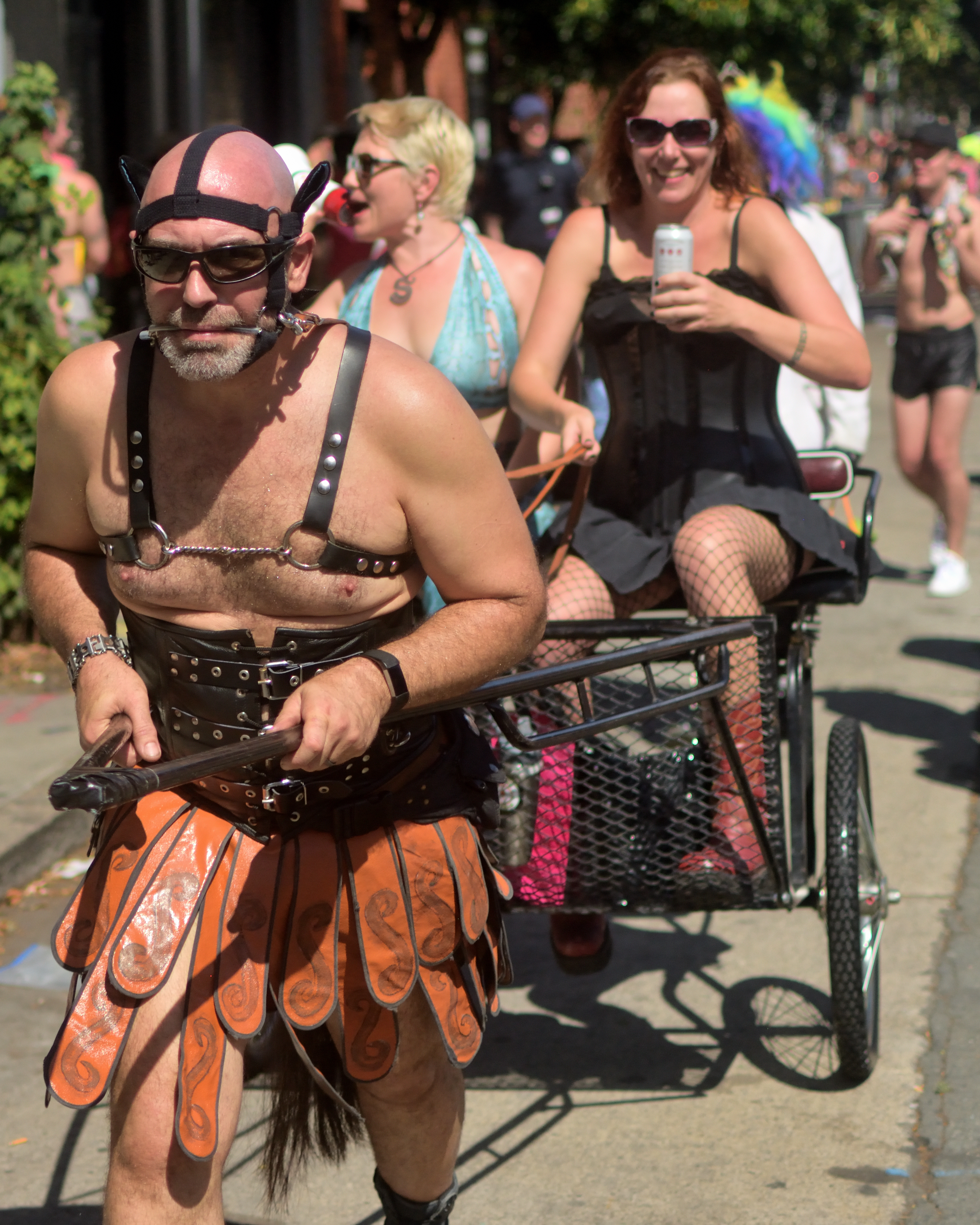 Folsom Street Fair, San Francisco, California.